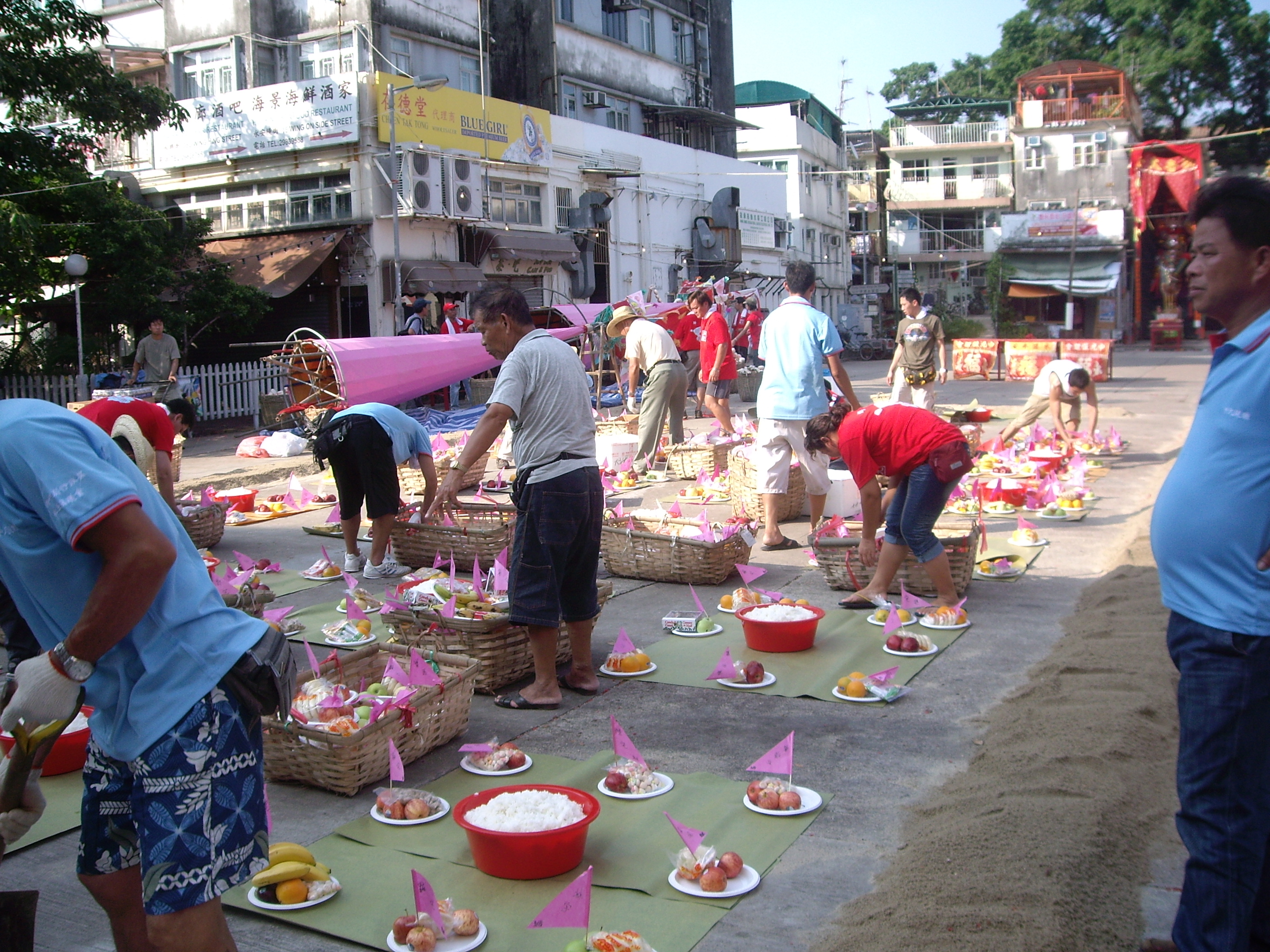 Ghost Festival in Ping Chou, HongKong